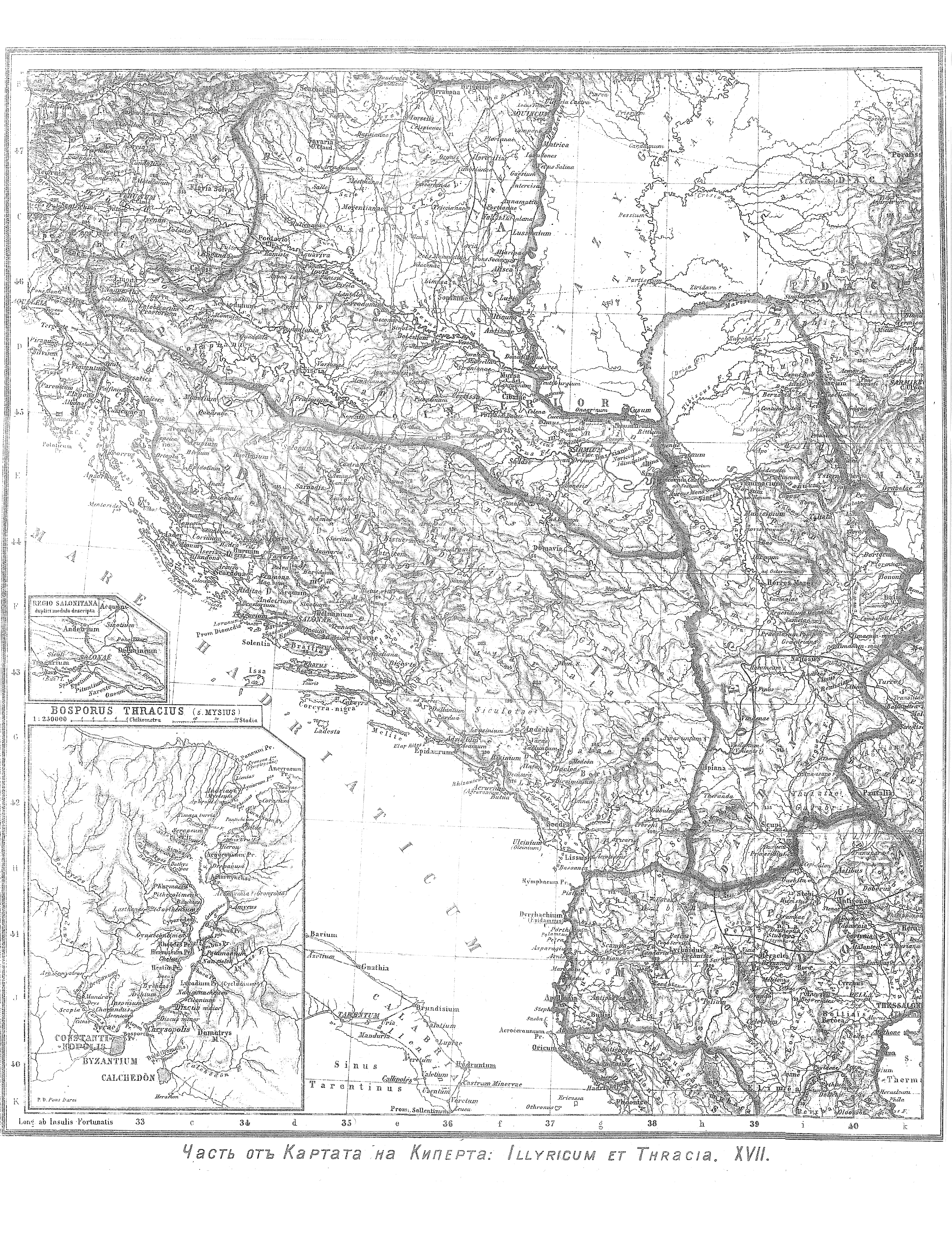 Map of Dalmatia and Moesia Superior